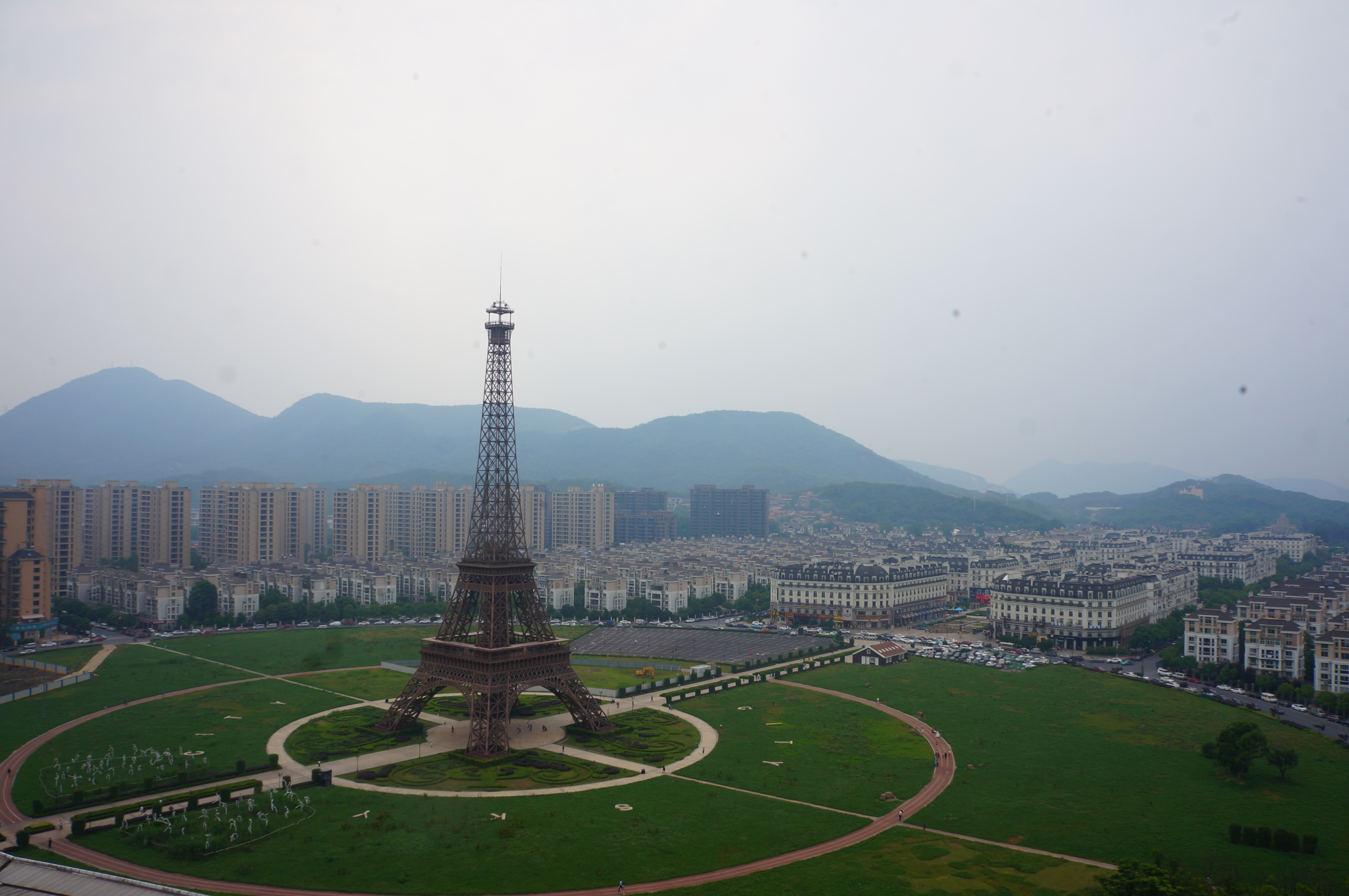 201806 Tianducheng Bird-eye View